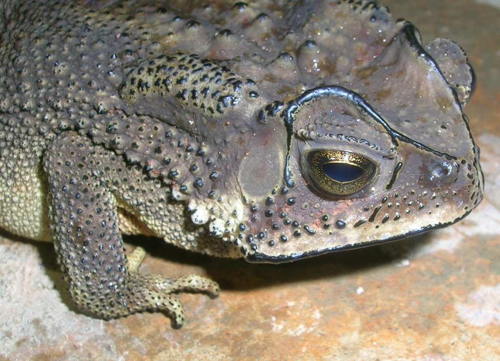 Bufo melanostictus from Javadi Hills, Tamil Nadu